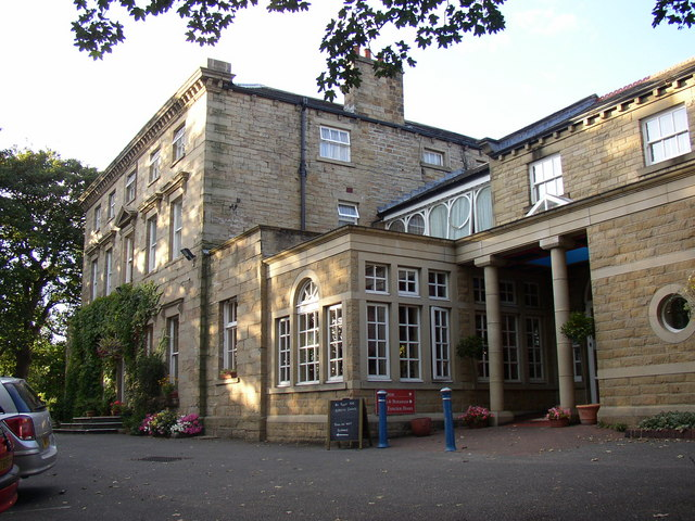 Healds Hall, Leeds Road, Liversedge A large early 19C Georgian house of three storeys, with modern extensions to form a hotel and restaurant. It was the home of the Reverend Hammond Roberson who was the model for the Reverend Mathew Helstone in Charlotte Bronte's 'Shirley', and was responsible for the building of several churches in the area.